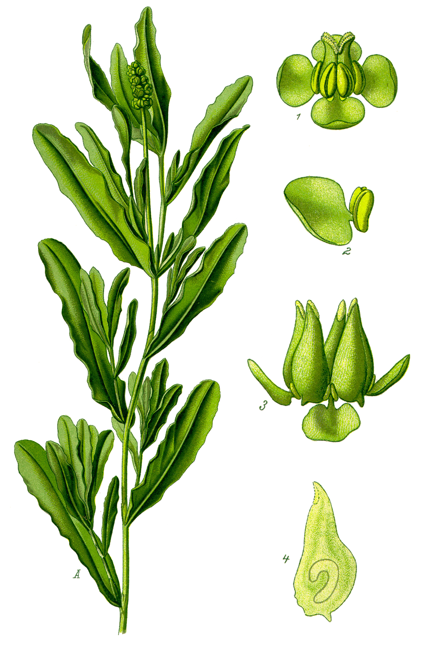 33.A. Potamogeton crispus L. - Curly pondweed A part of the plant; Flower; Stamen with petal; Fruit; Individual fruit cut lengthwise to show the curved embryo. 4X.